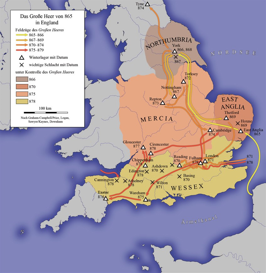 The Great Heathen Army of 866 in England.